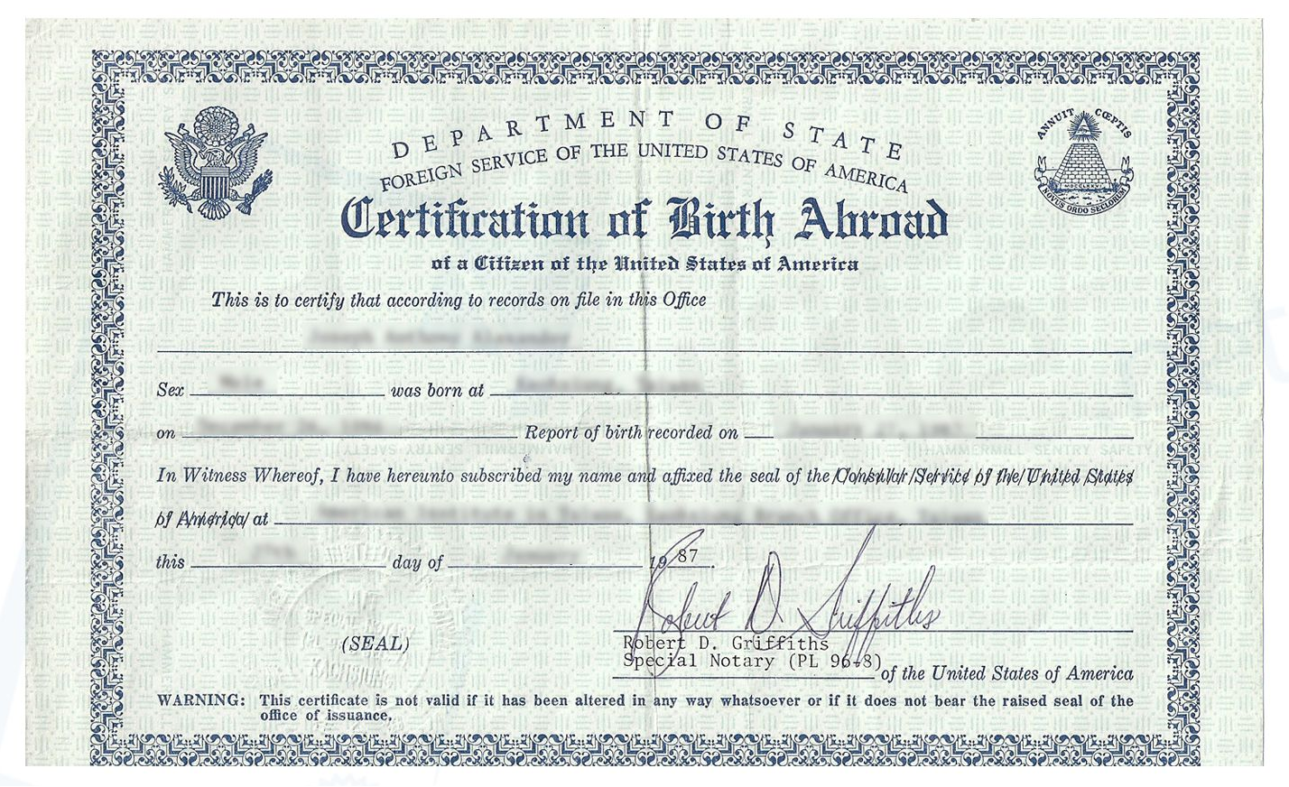 A Certification of Birth Abroad, issued to a foreign-born person acquiring U.S. citizenship at birth.